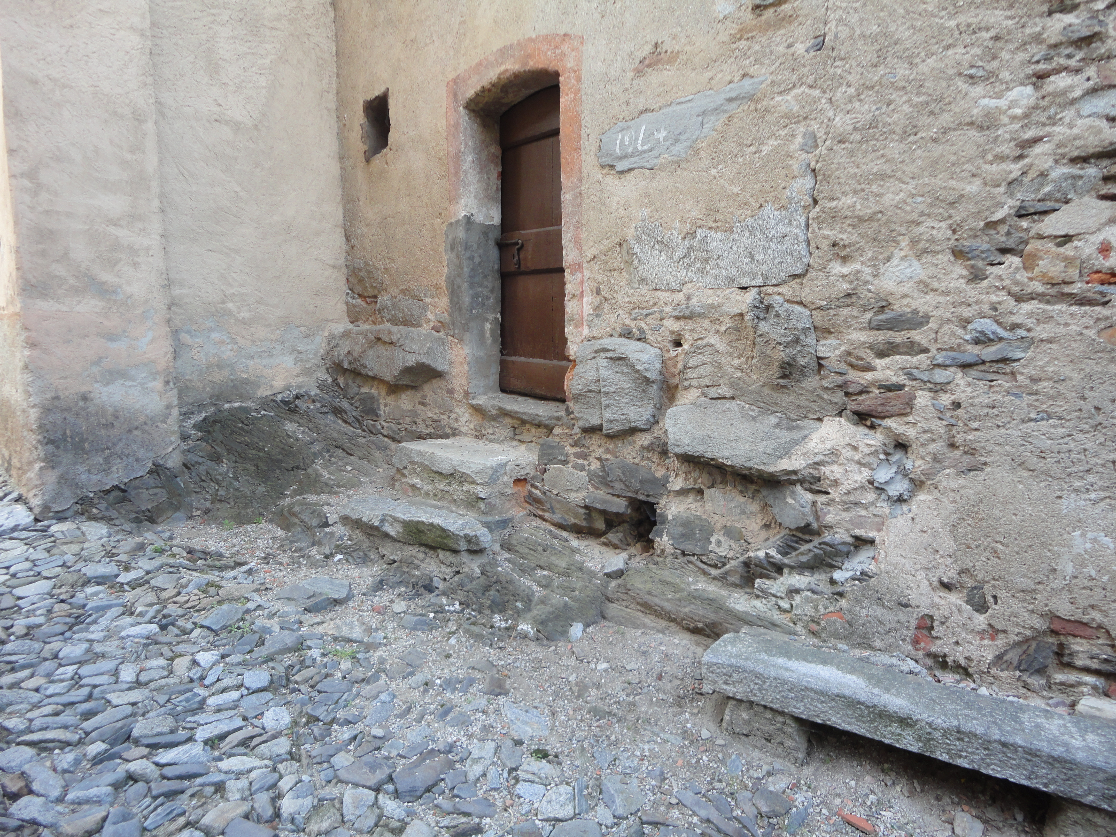 Aranno: door in the rock